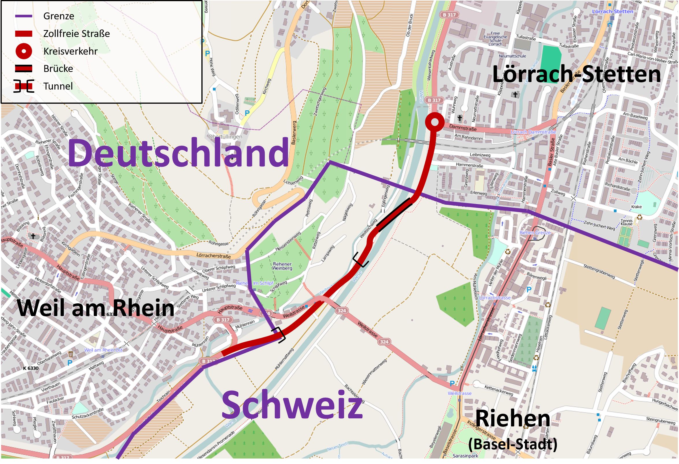 Map of the duty-free road (B317) between Weil am Rhein via Riehen to Lörrach